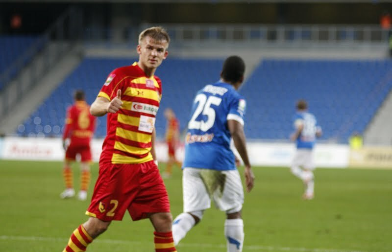 Filip Modelski (n°2), Jagiellonia Białystok's football player.